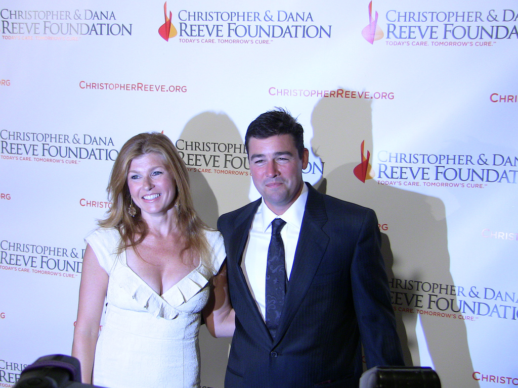 Connie Britton and Kyle Chandler - Making Magic Happy, Beverly Hilton, Beverly Hills, Calif. - Dec. 2, 2008